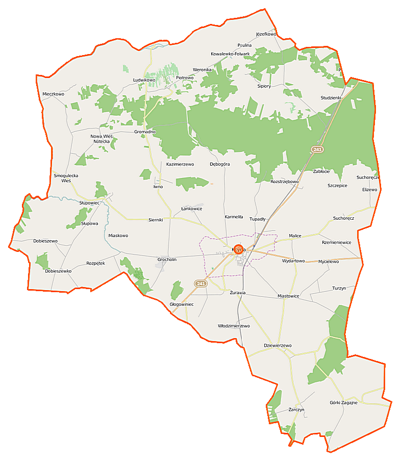 Map of Gmina Kcynia, Poland This map of Kcynia (gmina) was created from OpenStreetMap project data, collected by the community. This map may be incomplete, and may contain errors. Don't rely solely on it for navigation. Border coordinates53.114817.2949←↕→17.619352.8886